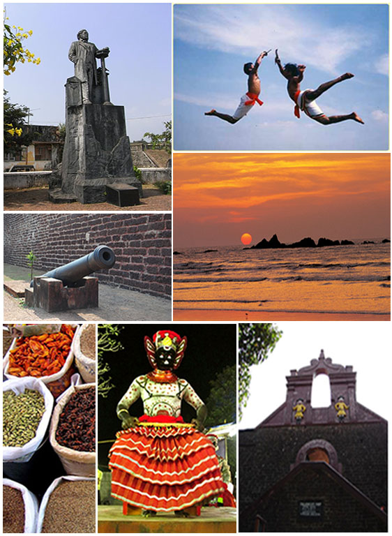 Montage of Pictures already in Wikipedia (1)Hermann Gundert monument Thalassery India.jpg(2)Kadhara.jpg(3)Muzhappilangad Beach Sunset.jpg(4)Thalassery fort.JPG(5)Theyyam in Kannur.png(6)Spices in an Indian market.jpg(7)Cannons inside the fort-Kannur.jpg